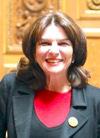 Nathalie Goulet in the French Senate